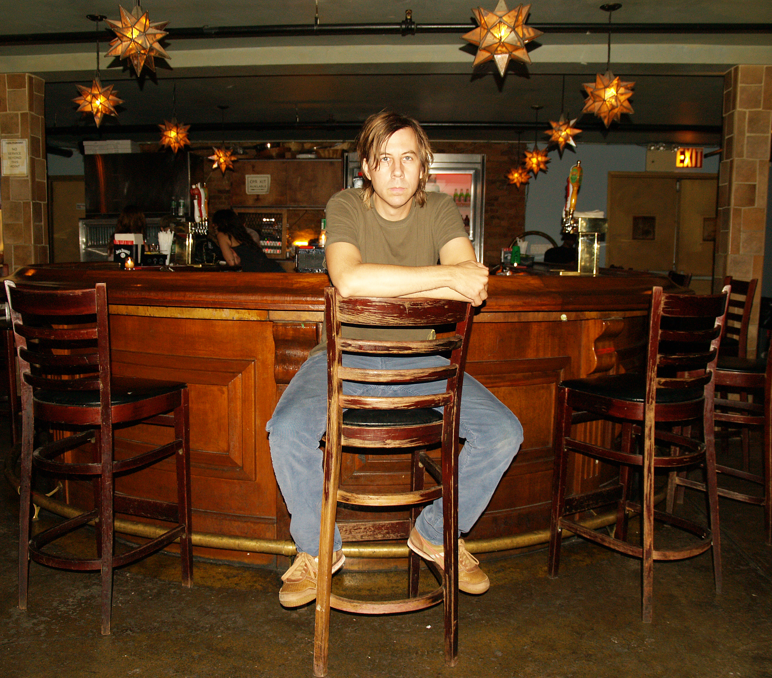 John Vanderslice at the Bowery Ballroom